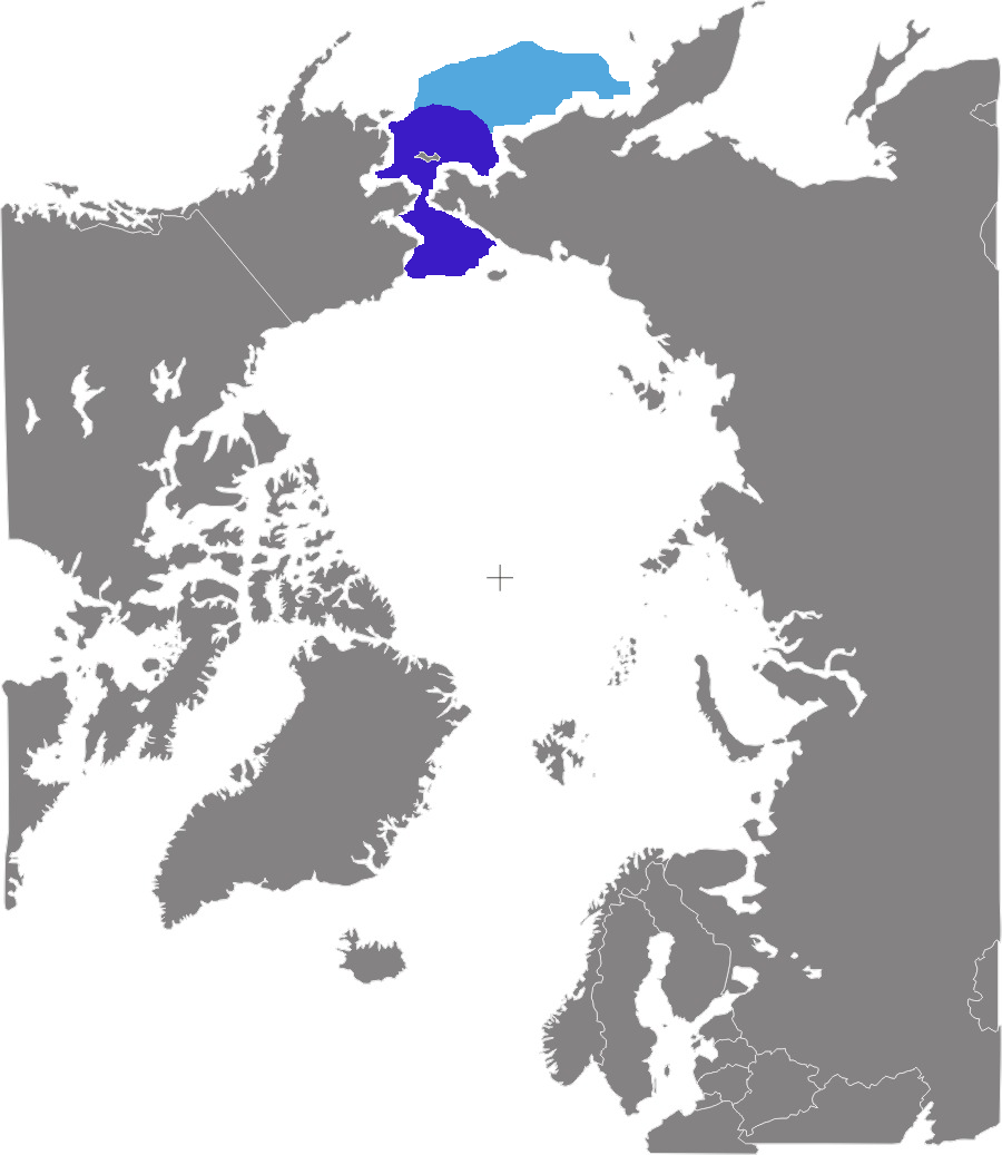 Distribution of the banded seal (dark blue: regular distribution; light blue: extended distribution in harsh winters)